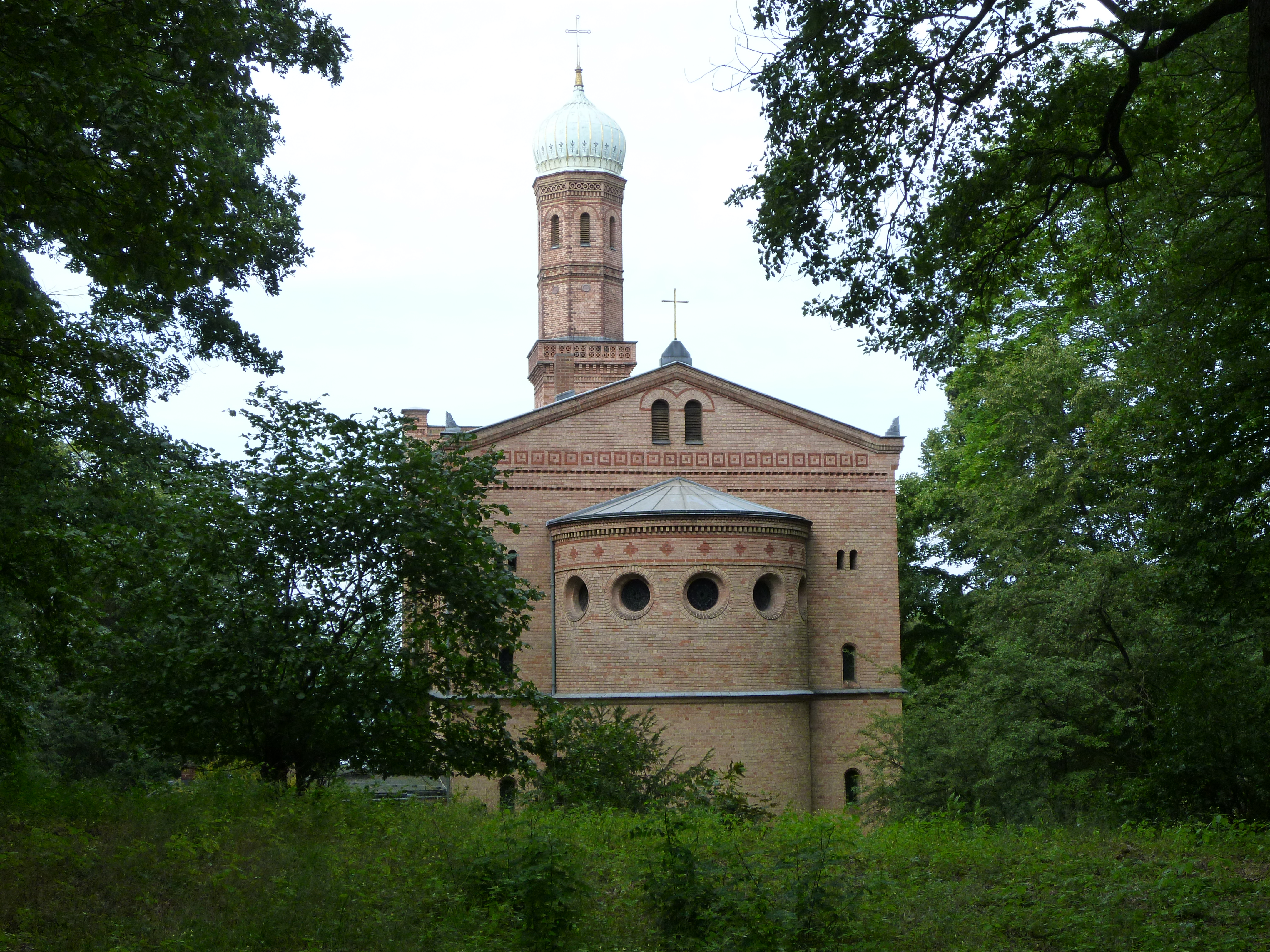 Church of Peter and Paul in Berlin Wannsee (Nikolskoe); rear view.